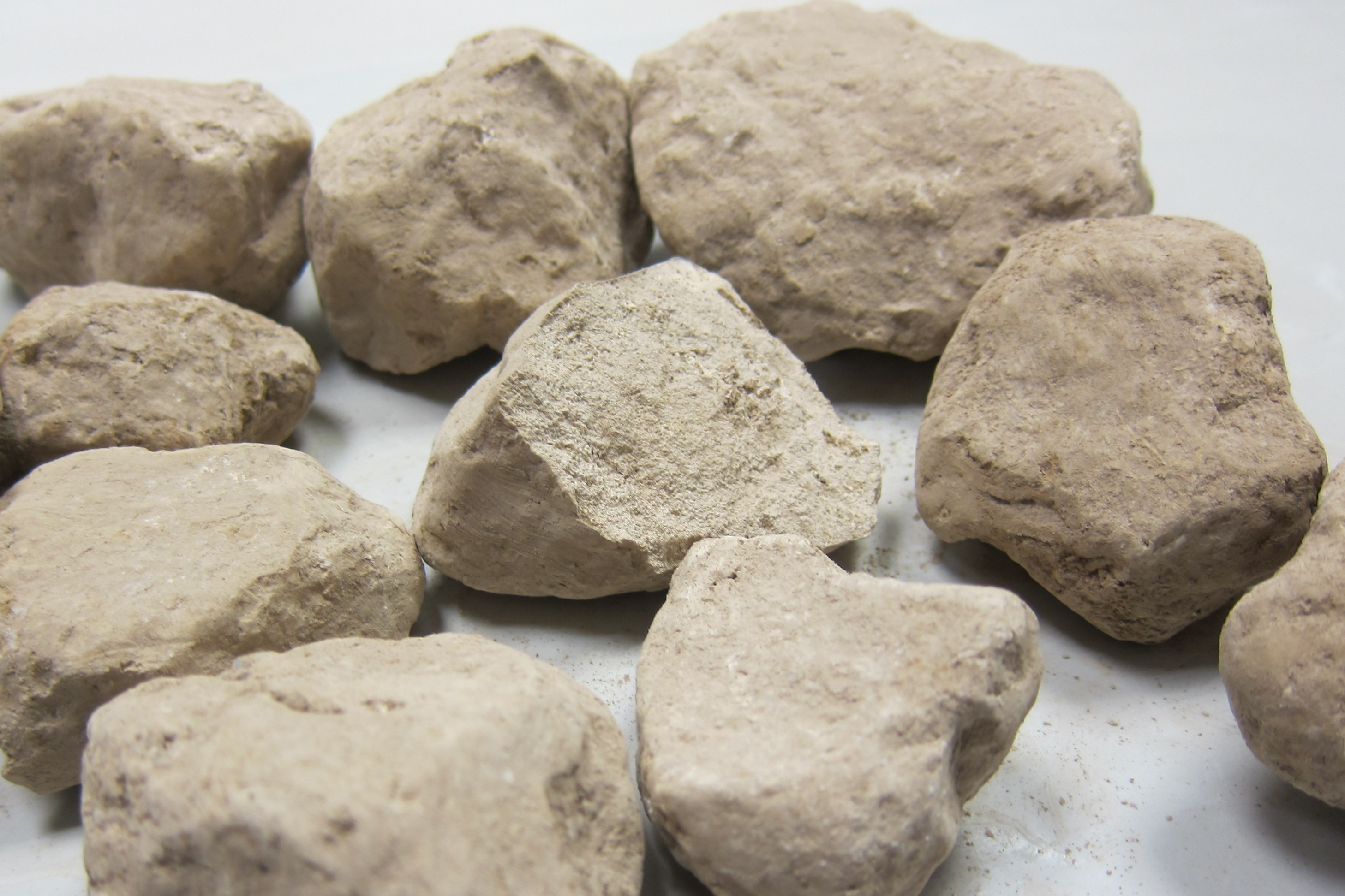 calcined dolostone.